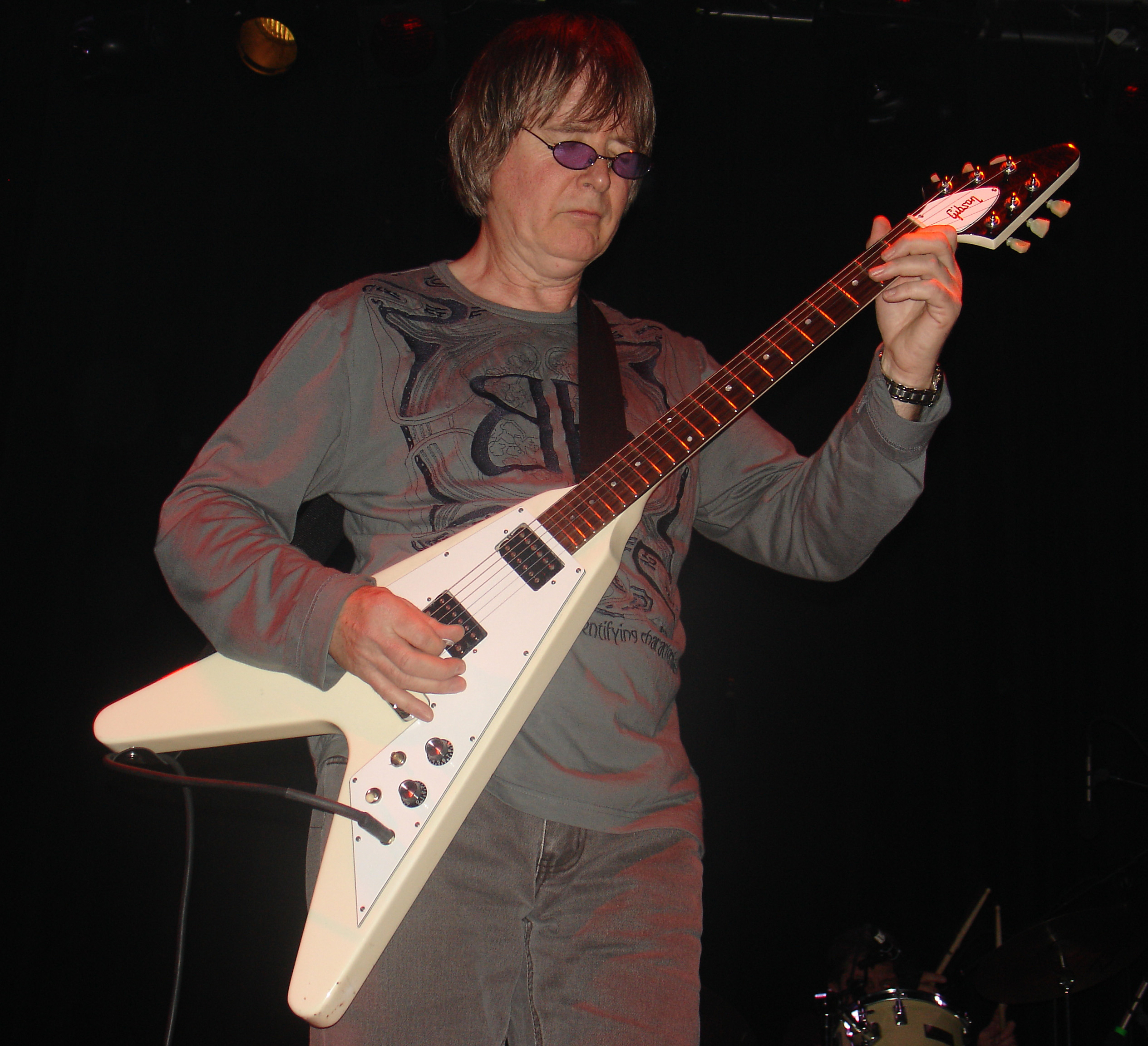 Savoy Brown